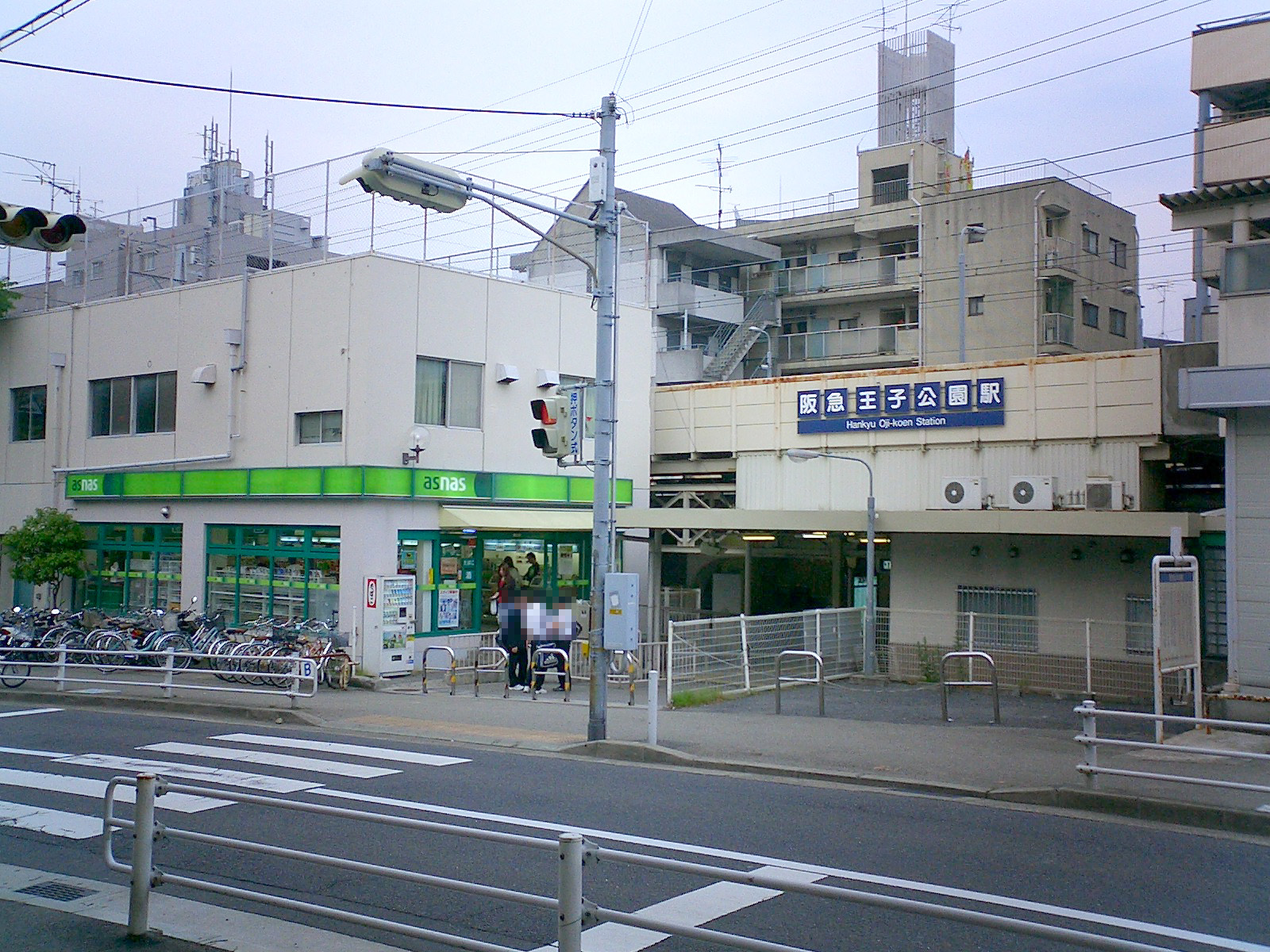 Hankyu Railway Kobe Main Line Oji-koen Station Building East Gate